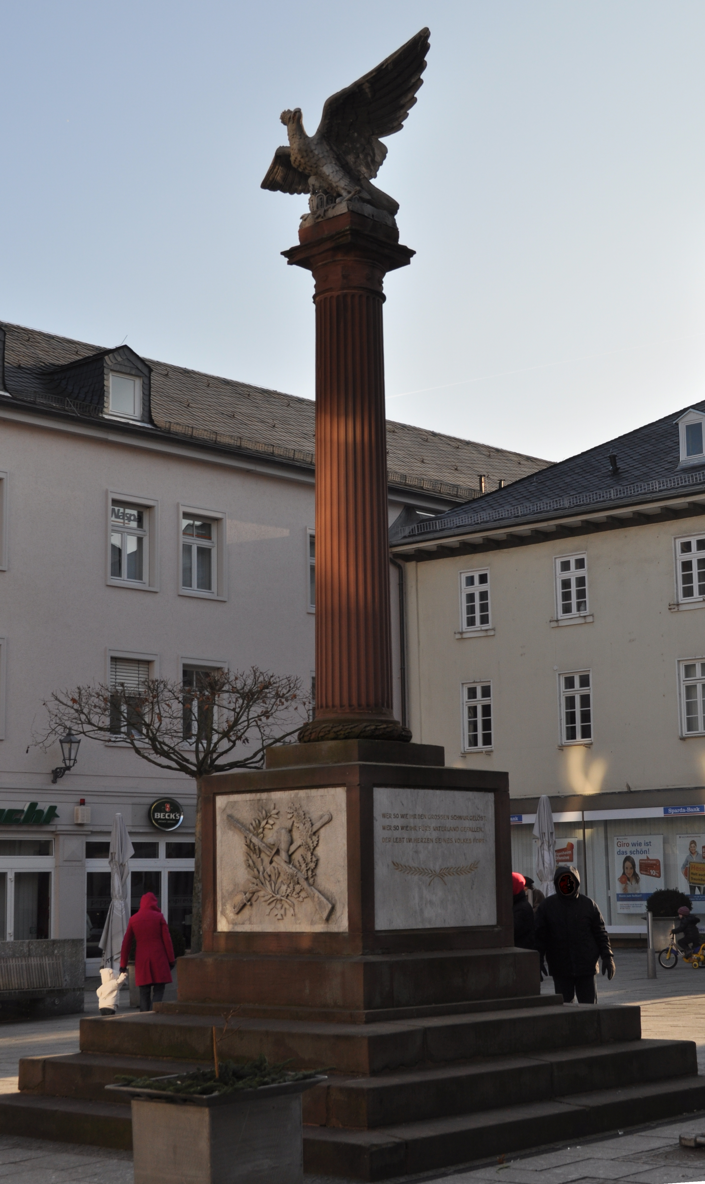 War memorial, Bad Homburg, Waisenhausplatz